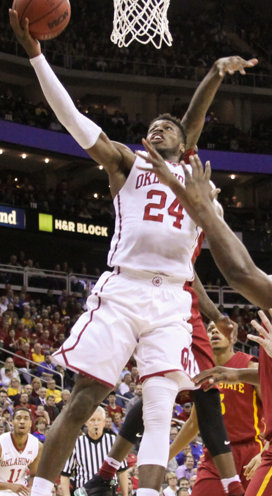 After being down at halftime, the Cyclones fought back, but fell short in their first game of the Big 12 Championship, losing to the Oklahoma Sooners 79-76.